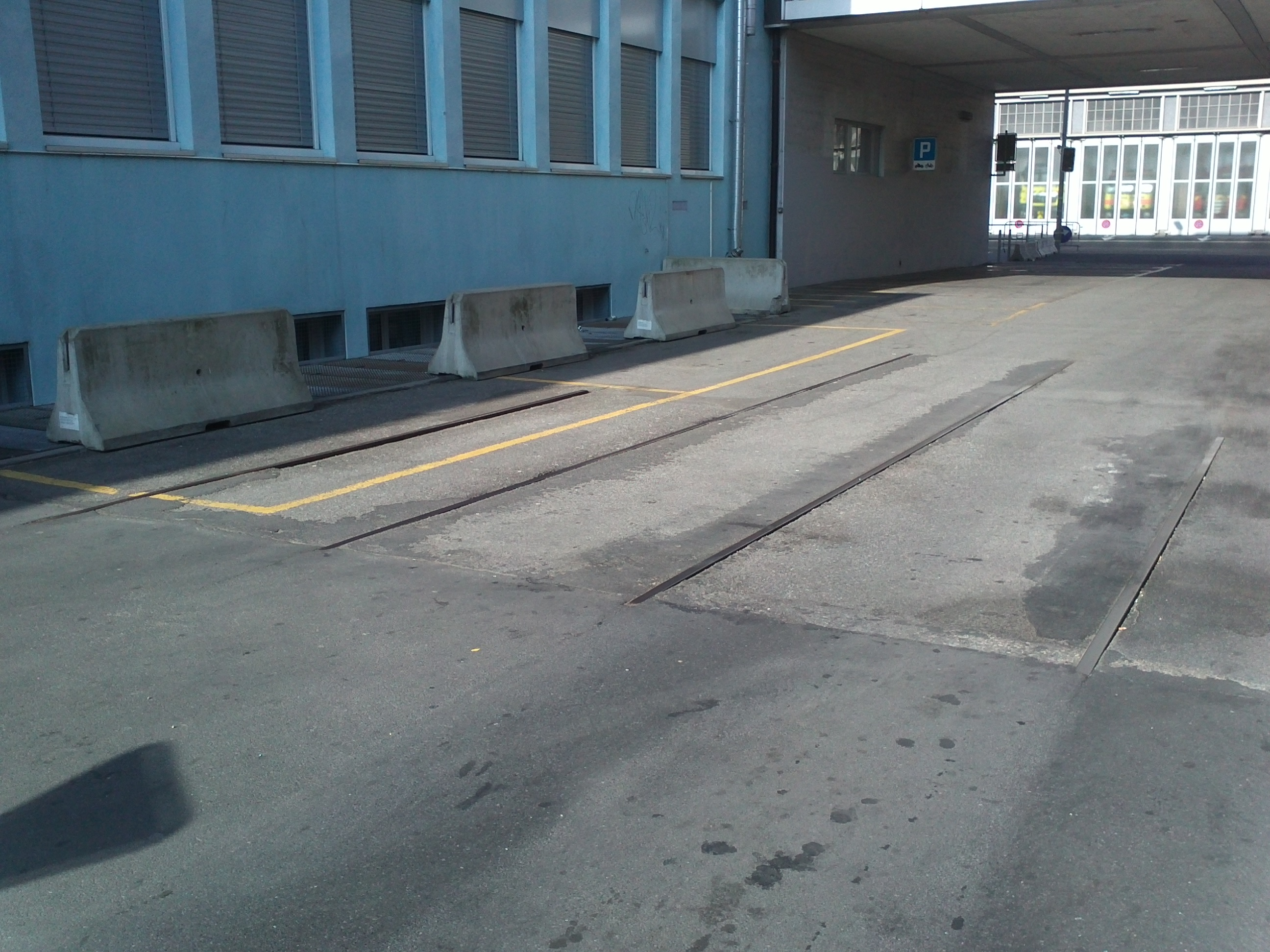 Vestige of the tracks from the ferry wagon in the former goods station of Flon.